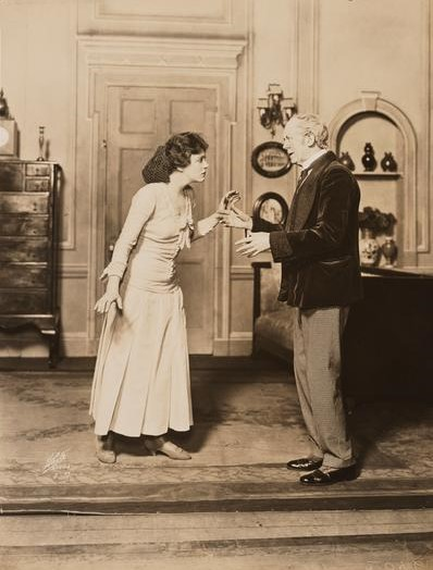 Ruth Chatterton & O. B. Clarence in the Broadway's play Mary Rose (1920-1921) - publicity still (cropped)